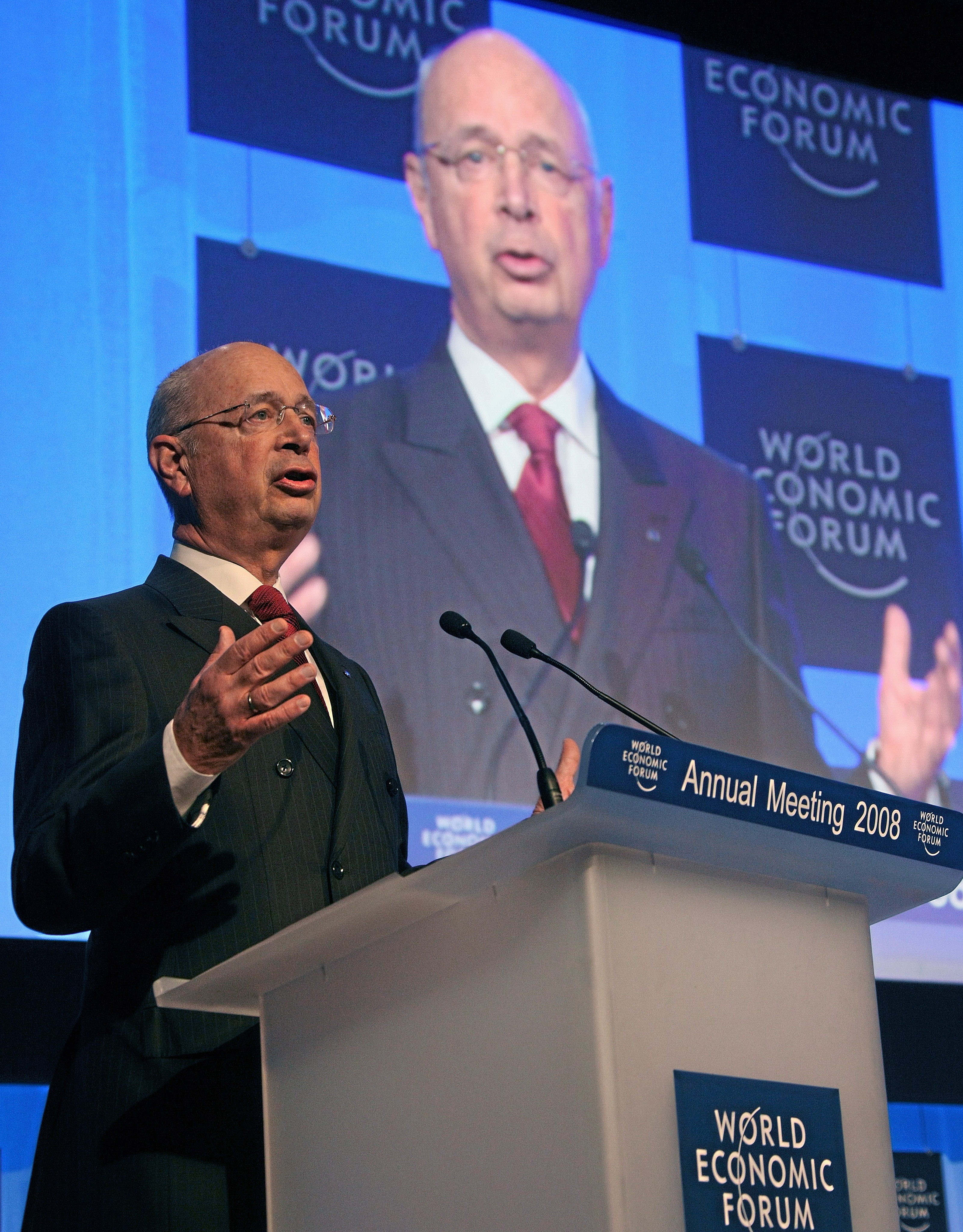 DAVOS/SWITZERLAND, 23JAN08 - Klaus Schwab, Founder and Executive Chairman, World Economic Forum addresses the audience at the Annual Meeting 2008 of the World Economic Forum in Davos, Switzerland, January 23, 2008. Copyright World Economic Forum ( by Remy Steinegger